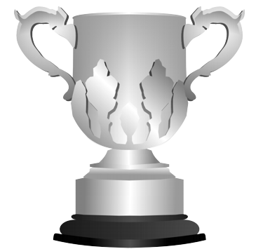 Football League Cup